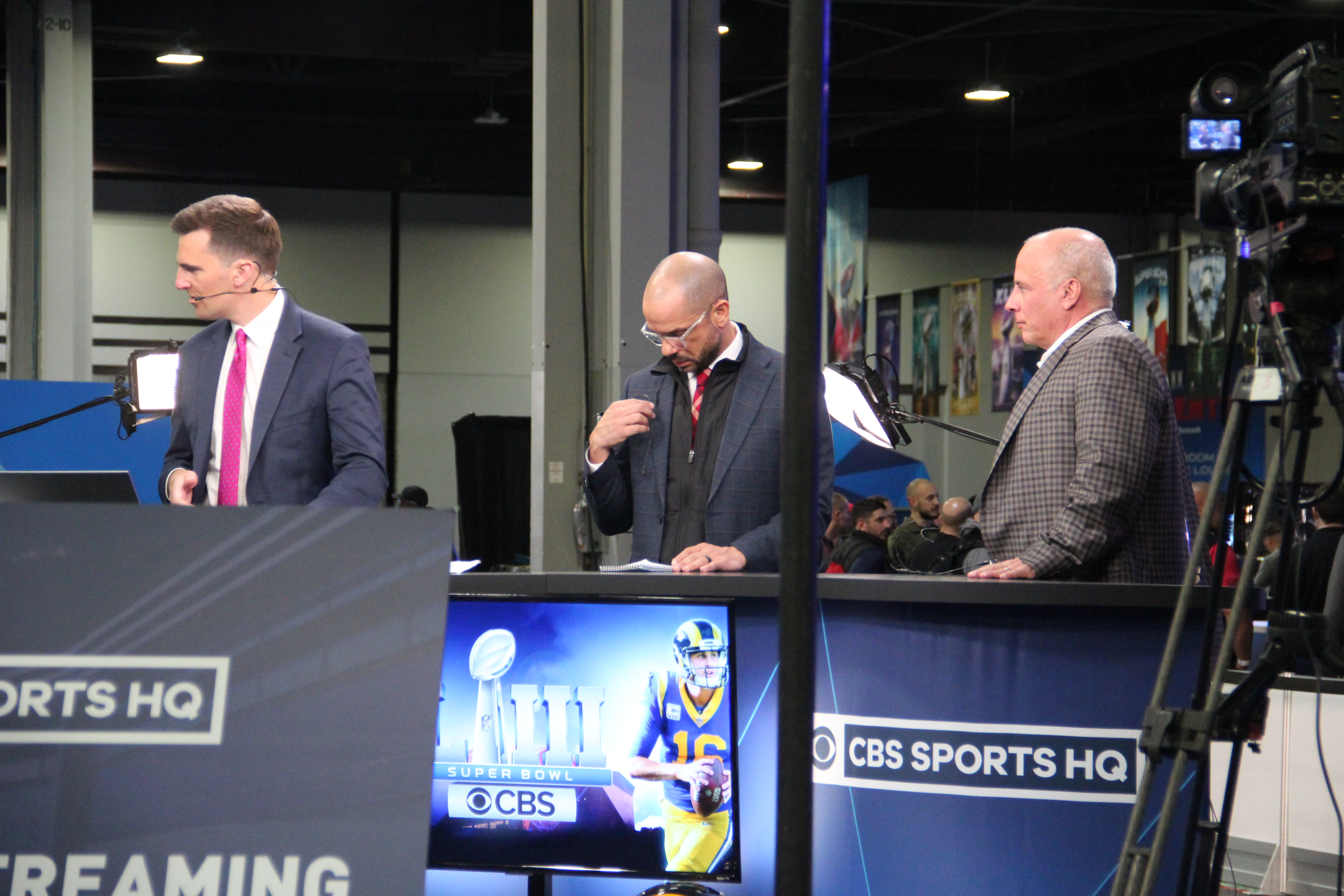 Anchors at the CBS Sports HQ desk